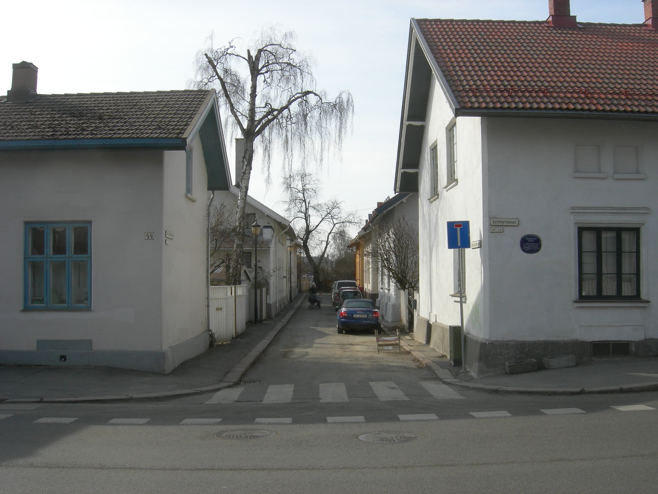 Anton Schjøths gate by Geitmyrsveien, Valleløkken neighbourhood, Oslo